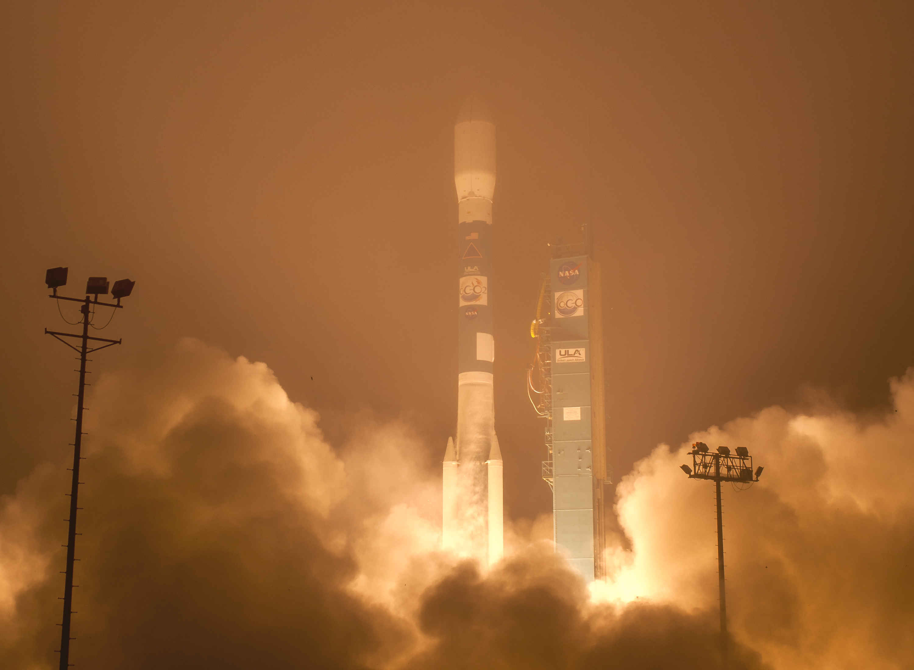 A United Launch Alliance Delta II rocket launches with the Orbiting Carbon Observatory-2 (OCO-2)satellite onboard from Space Launch Complex 2 at Vandenberg Air Force Base, Calif. on Wednesday, July 2, 2014. OCO-2 will measure the global distribution of carbon dioxide, the leading human-produced greenhouse gas driving changes in Earth’s climate.